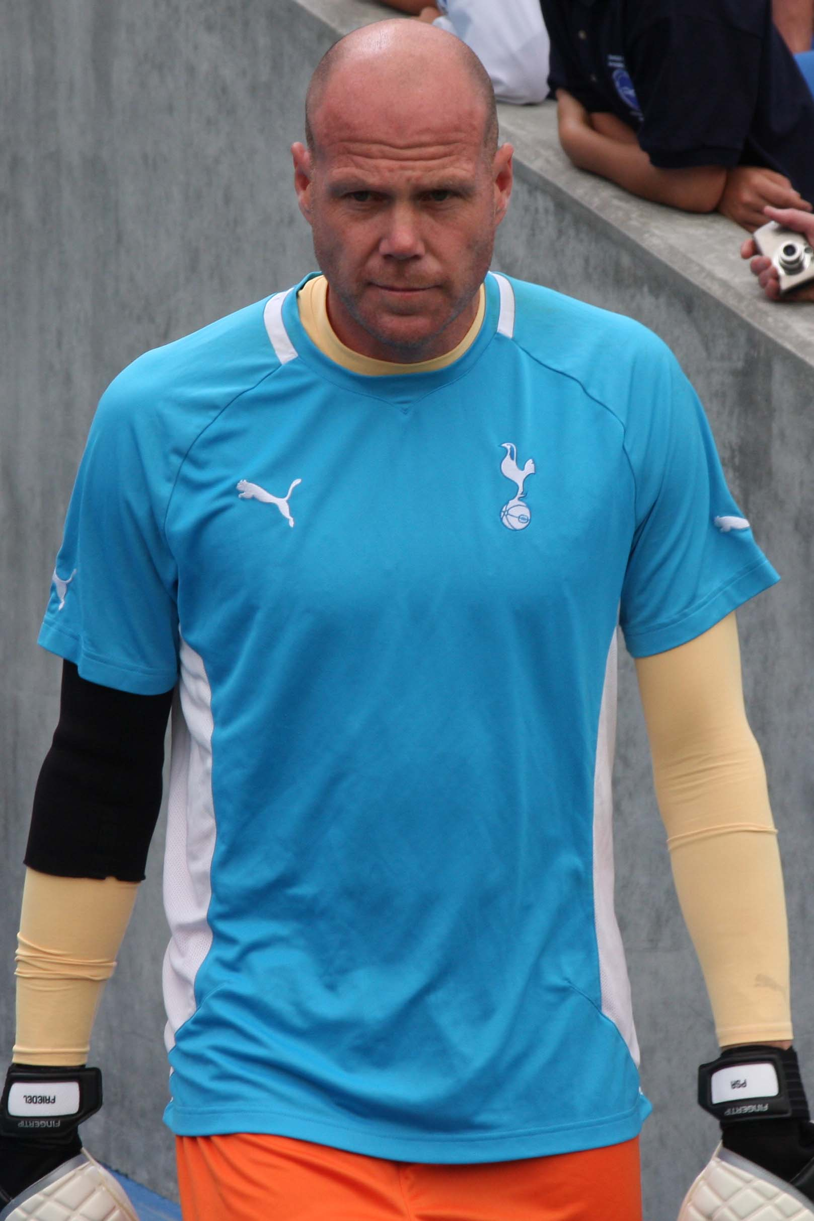 Brad Friedel of Tottenham Hotspur, July 2011.